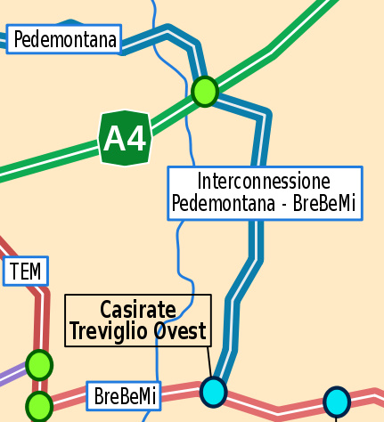 Scheme of the BreBeMi Motorway, Italy